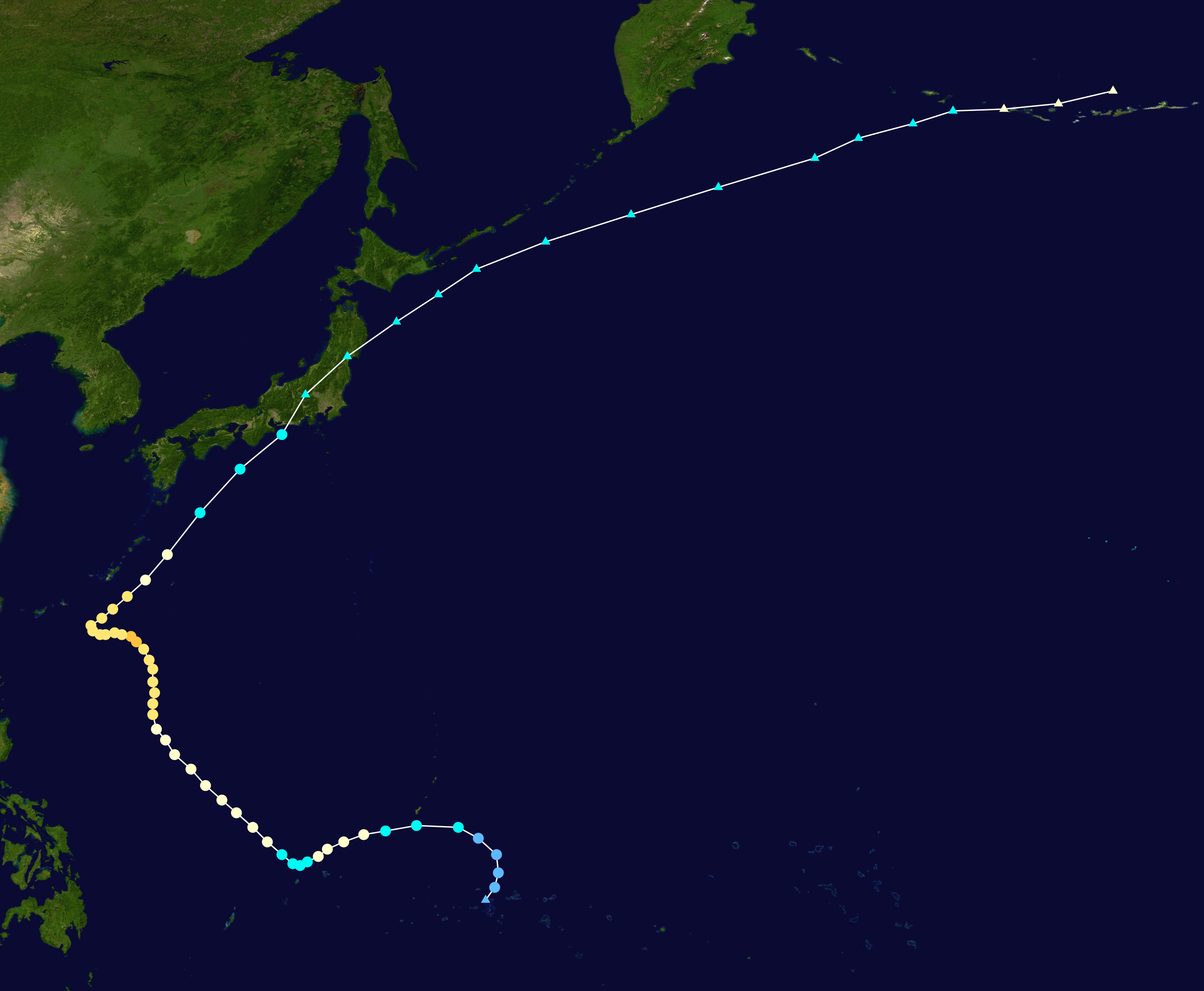 Track map of Typhoon Dinah of the 1967 Pacific typhoon season. The points show the location of the storm at 6-hour intervals. The colour represents the storm's maximum sustained wind speeds as classified in the Saffir-Simpson Hurricane Scale (see below), and the shape of the data points represent the nature of the storm, according to the legend below. Saffir–Simpson hurricane wind scale Tropical depression≤38 mph≤62 km/h Category 3111–129 mph178–208 km/h Tropical storm39–73 mph63–118 km/h Category 4130–156 mph209–251 km/h Category 174–95 mph119–153 km/h Category 5≥157 mph≥252 km/h Category 296–110 mph154–177 km/h Unknown Storm typeTropical cycloneSubtropical cycloneExtratropical cyclone / Remnant low / Tropical disturbance